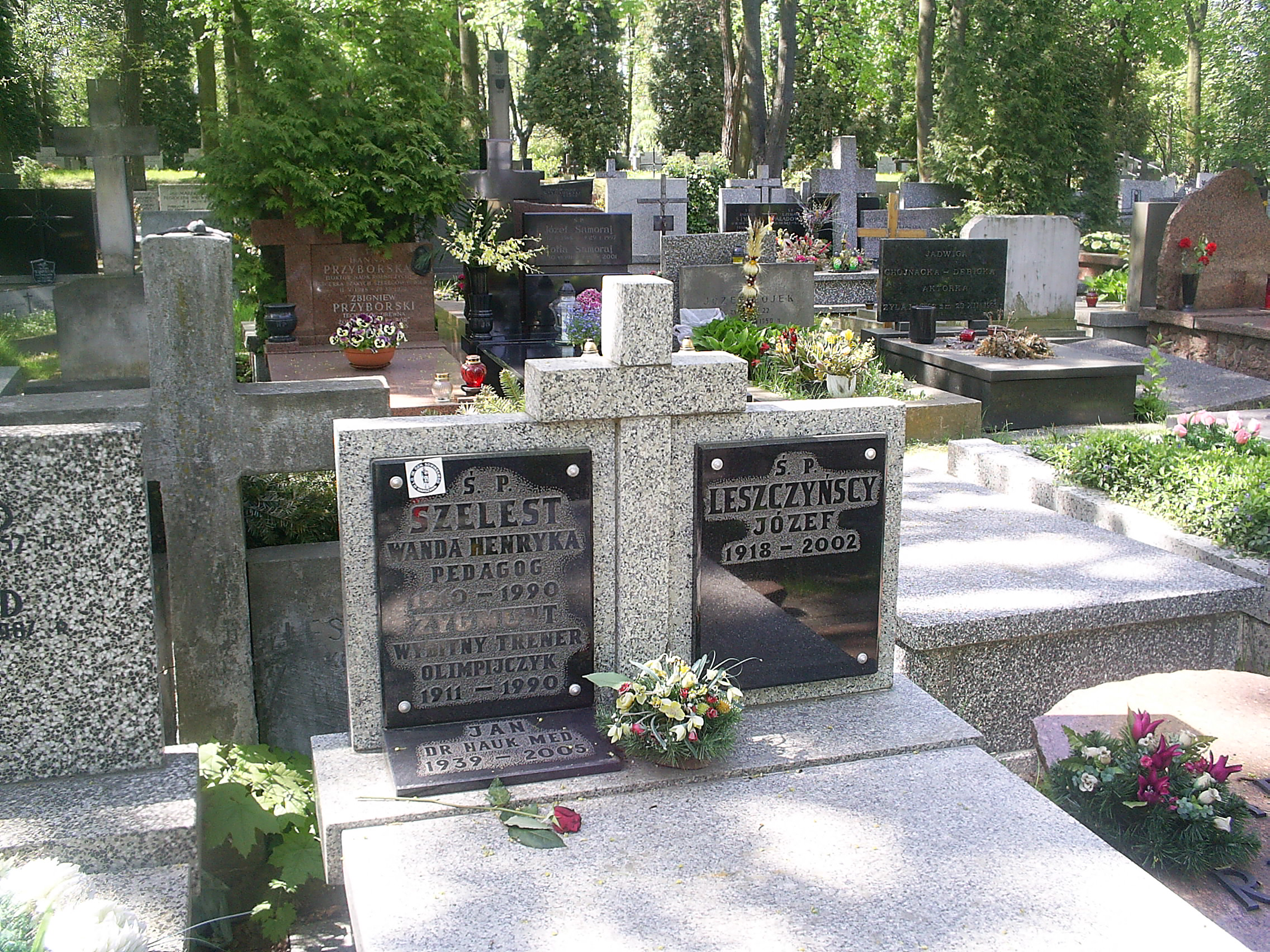 Gravestone of Zygmunt Szelest, polish javelin-thrower, Warsaw, Powązki - Cmentarz Wojskowy